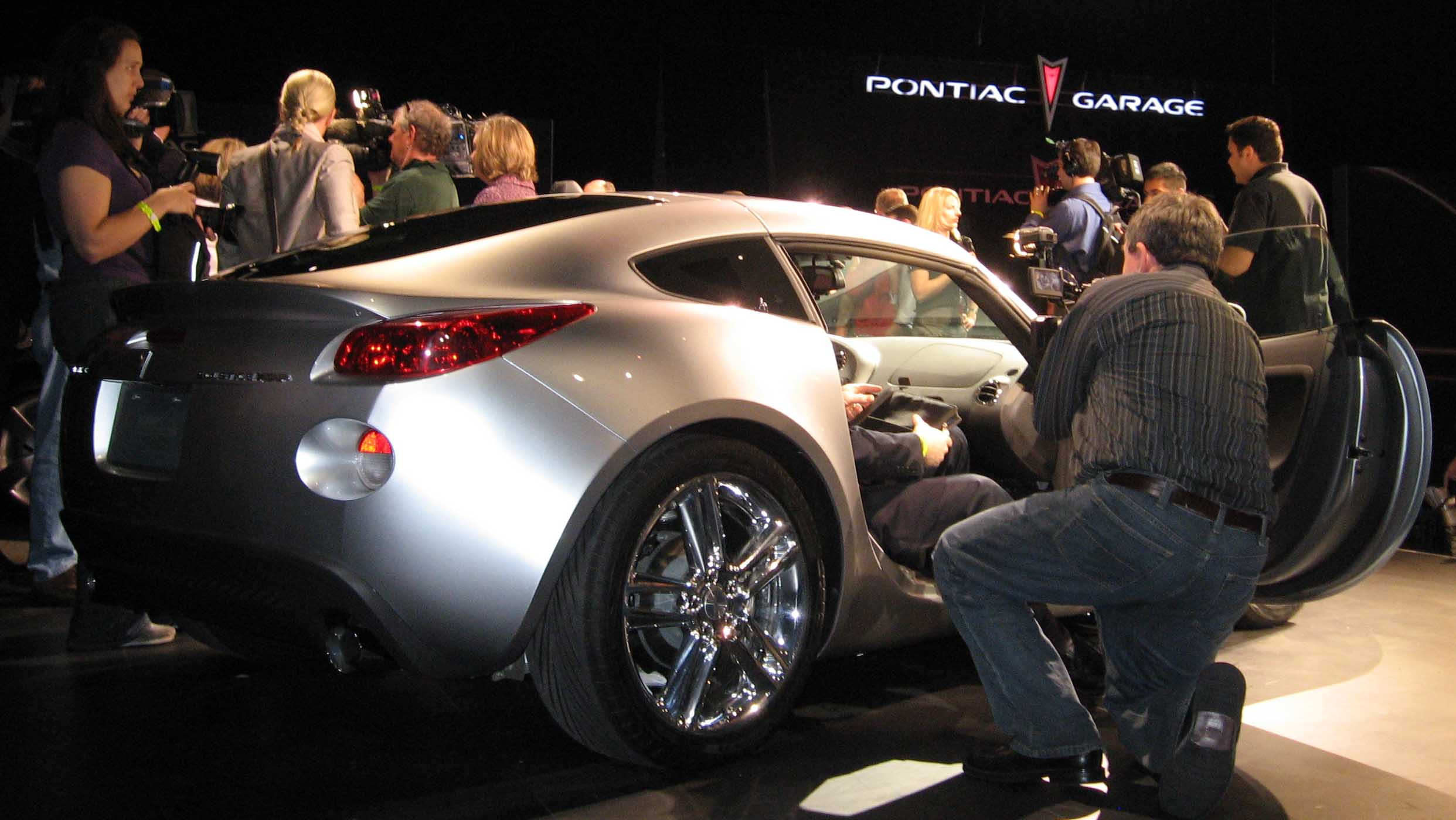 Journalists crowd around the Pontiac Solstice coupe at its unveiling at the 2008 New York Auto Show.